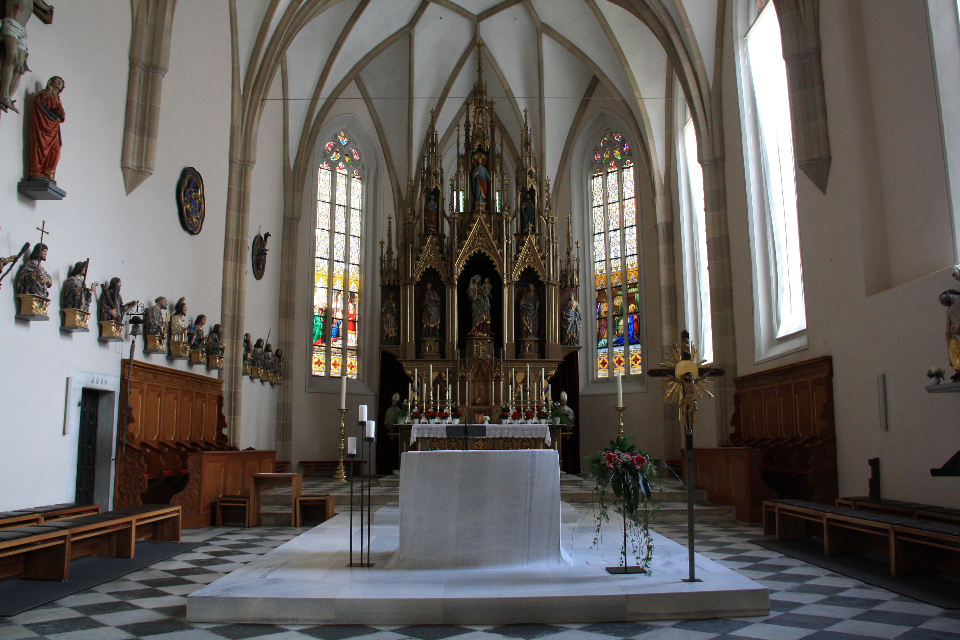 Italy, South Tyrol, Sterzing, Unsere liebe Frau im Moos. The main altar.